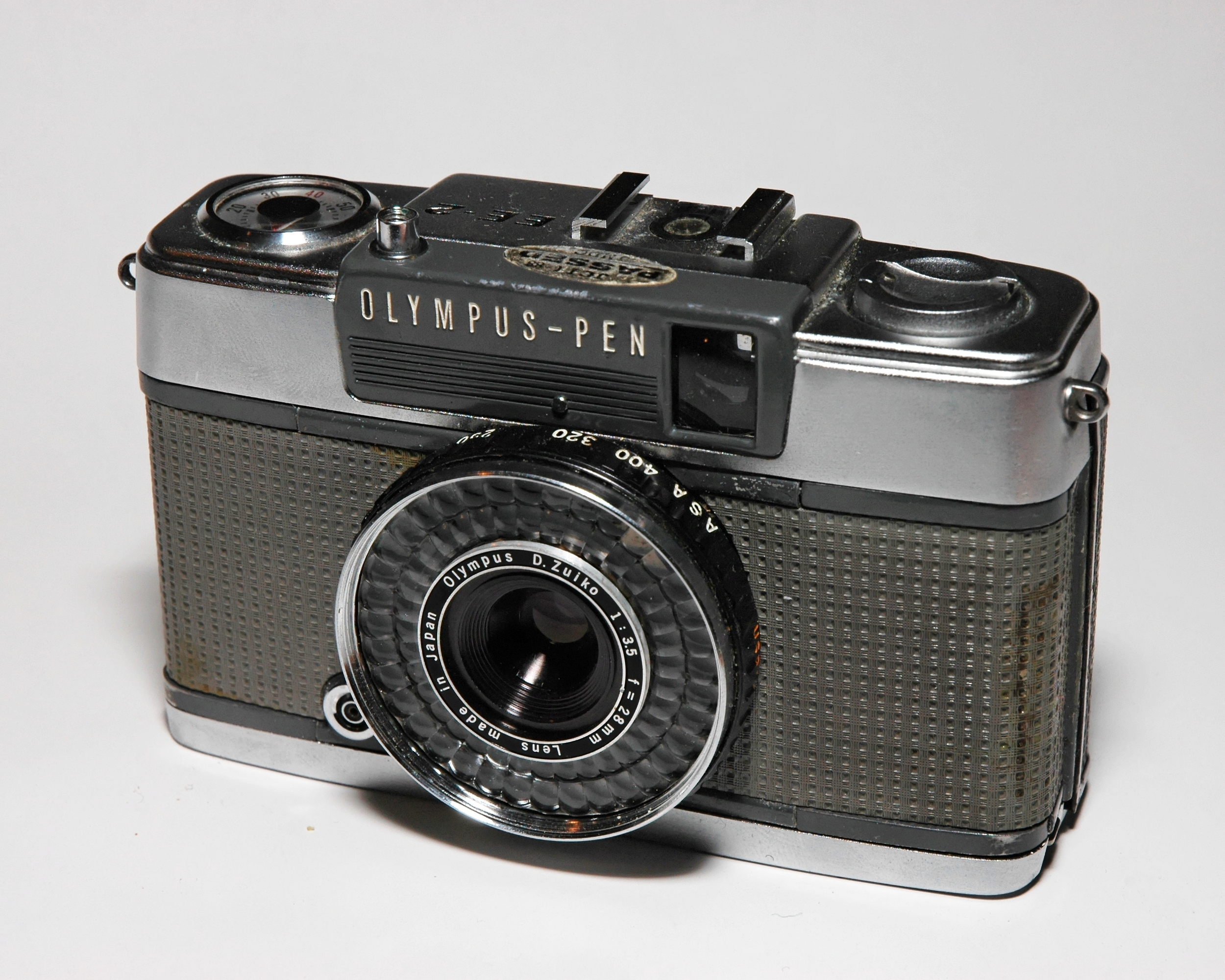 Olympus Pen EE-2 half-frame (24x18) automatic camera. EE stands for Electric Eye, viz. the selenium cell surrounding the fixed-focus Zuiko D 28/3.5. Made in Japan, marketed in 1968.